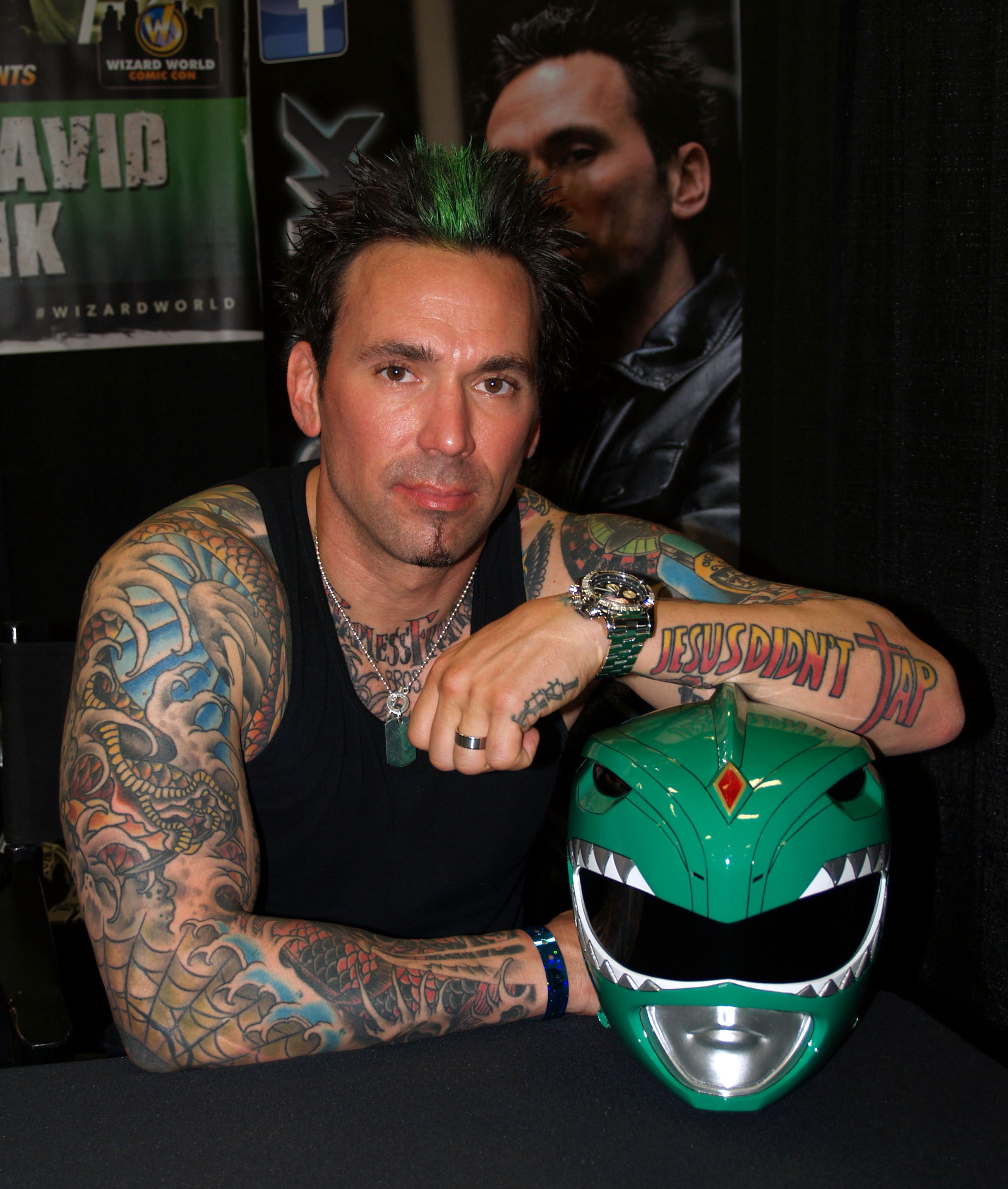 Actor and professional mixed martial artist Jason David Frank, who played the Green Power Ranger in the children's media franchise Power Rangers, at the 2013 Wizard World New York Experience Comic Con at Pier 36 in Manhattan, June 28, 2013. This photo was created by Luigi Novi. It is not in the public domain, and use of this file outside of the licensing terms is a copyright violation.